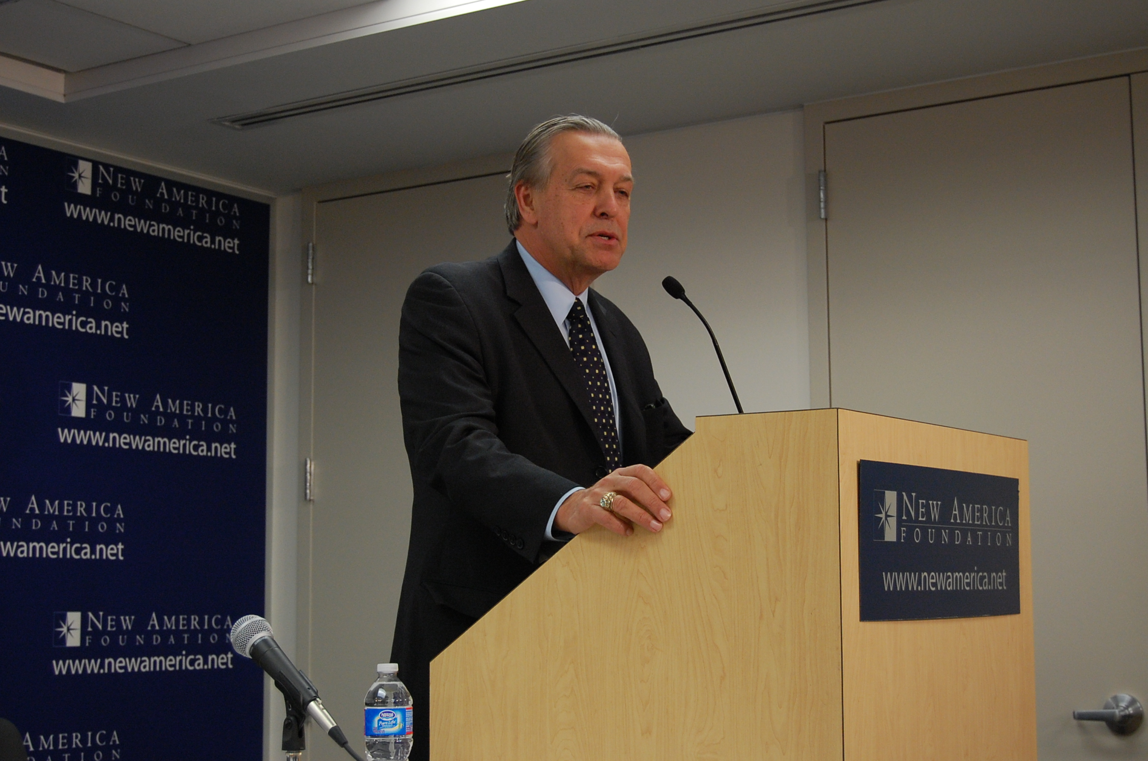 David Caron (February 24, 2011)